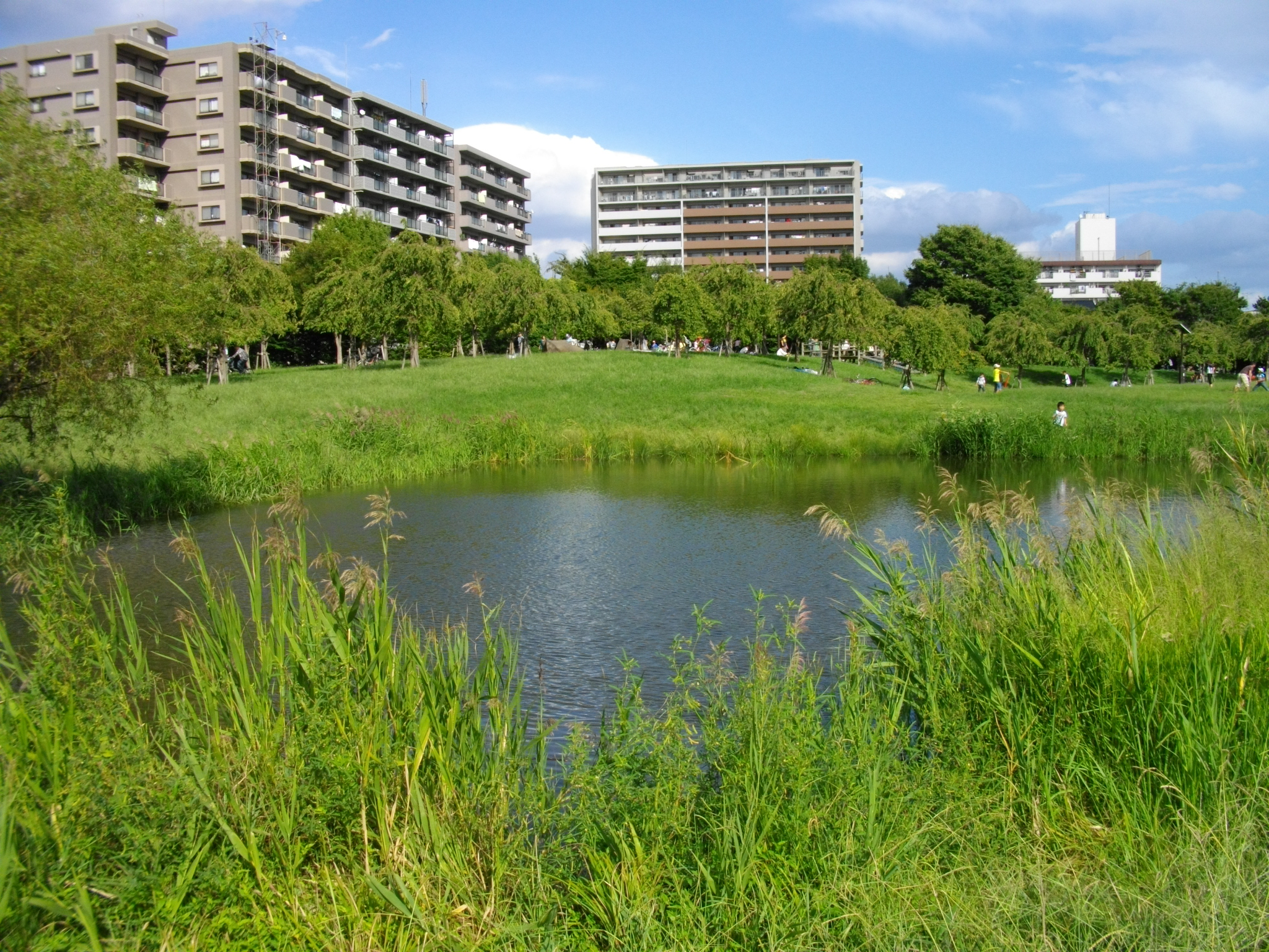 Ogu no Hara Park